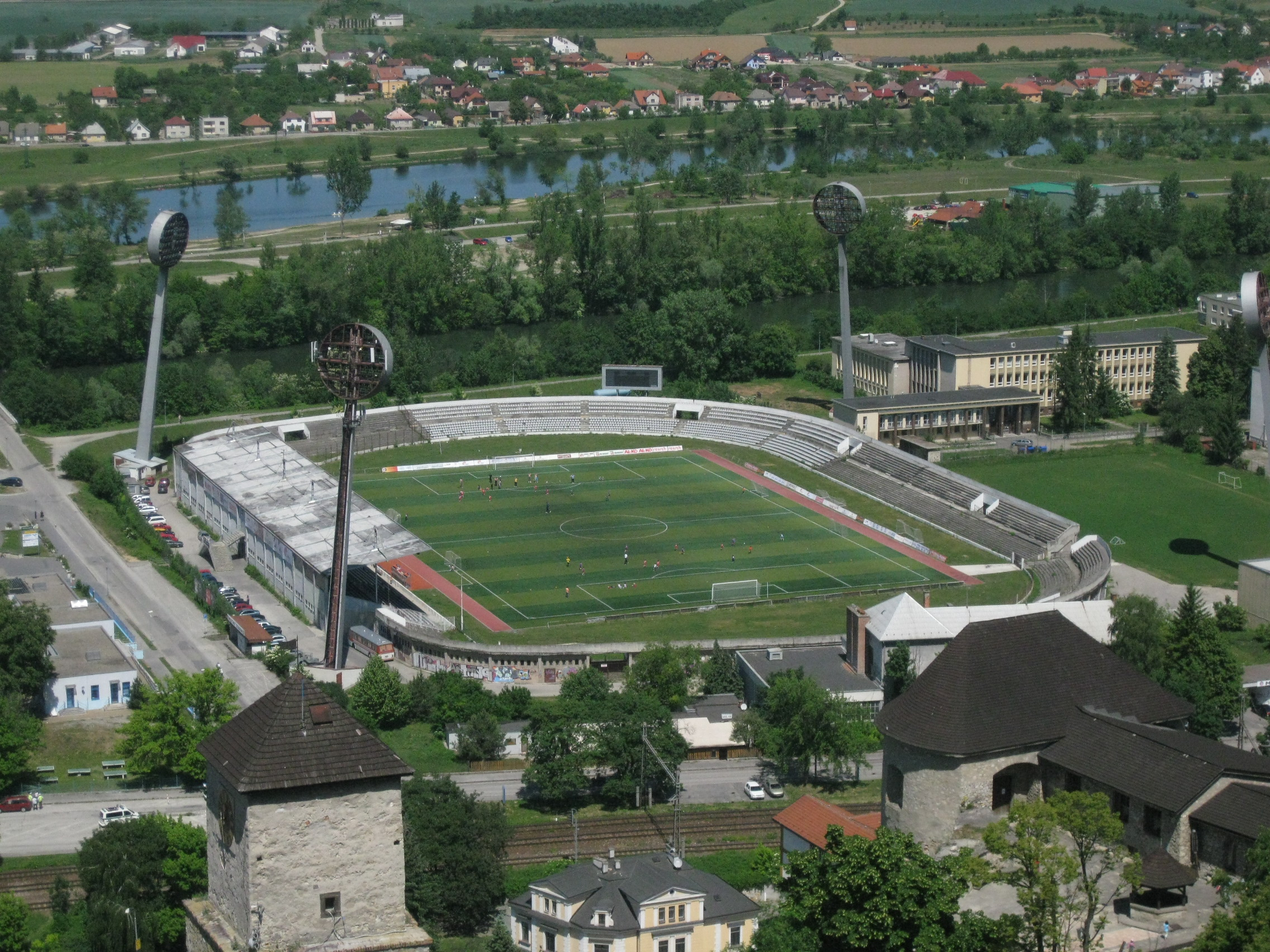 Football stadium in Trenčín, Slovakia